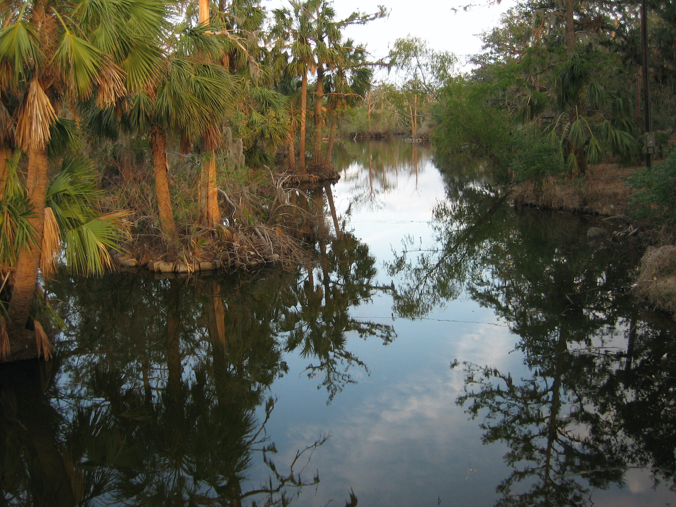 Bayou Metairie in City Park, New Orleans. Portion in park is only remaining portion of once extensive bayou.